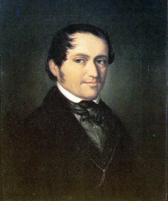 Friedrich Wieck (1785 – 1873) at the age of 45. Painting, unknown Robert-Schumann-Haus Zwickau. The picture shows the father of Clara in the year, when he met with Robert Schumann for the first time.